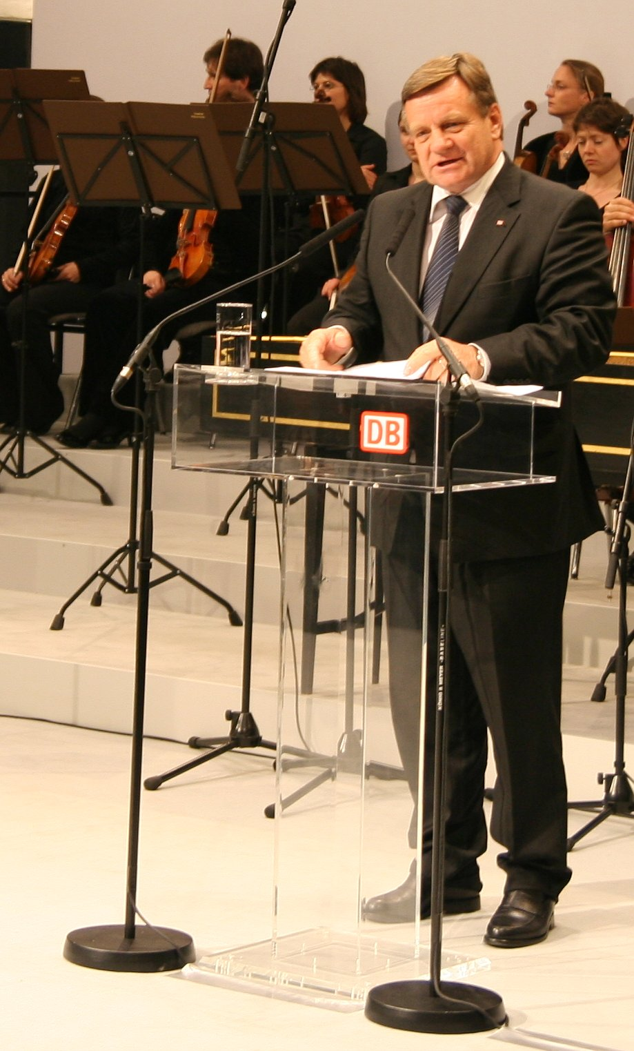 Hartmut Mehdorn, Deutsche Bahn chairman, at the inauguration ceremony at the modernized Dresden main railway station